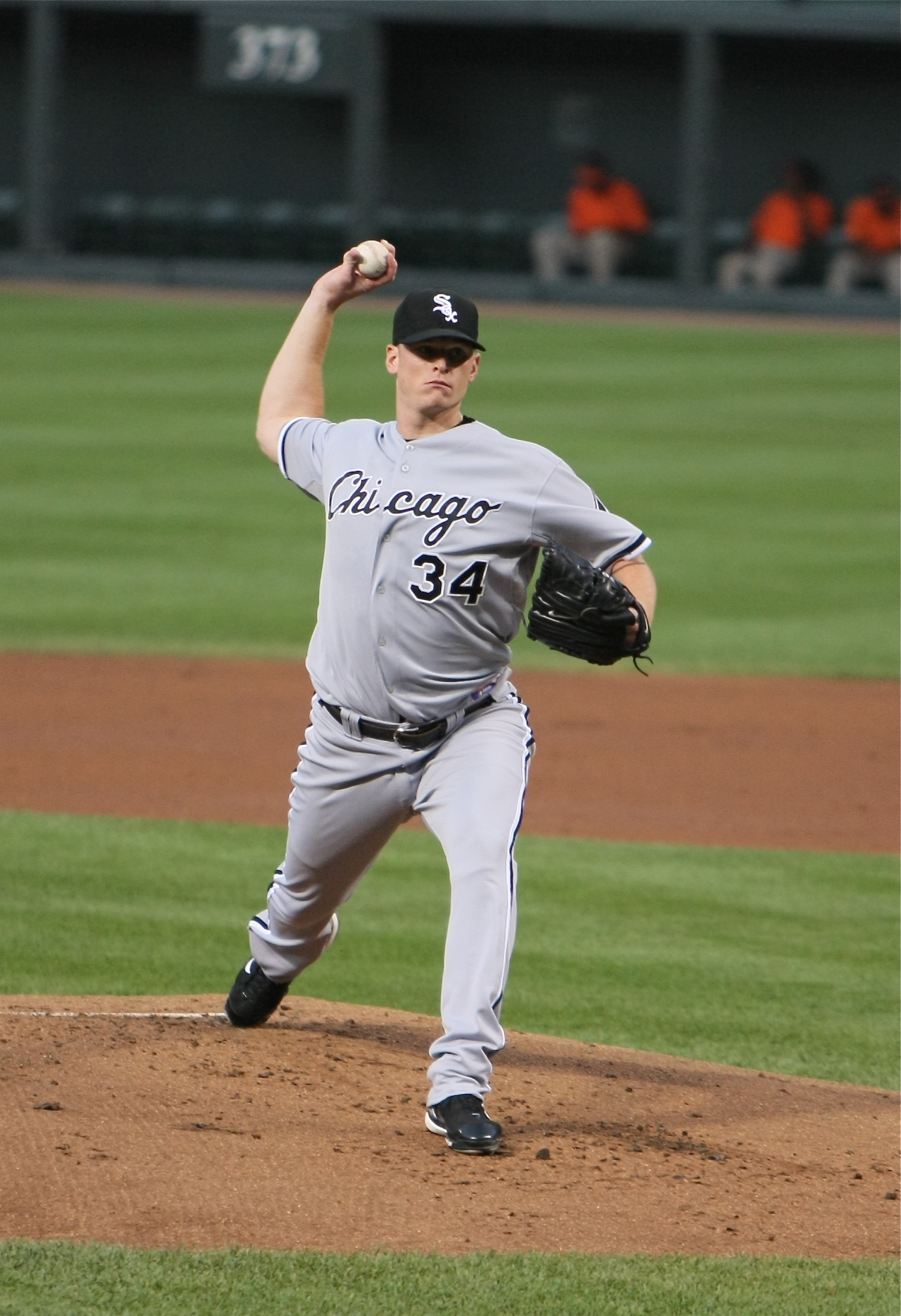 Chicago White Sox pitcher Gavin Floyd delivers against the Baltimore Orioles on Tuesday, Aug. 26, 2008 in Baltimore